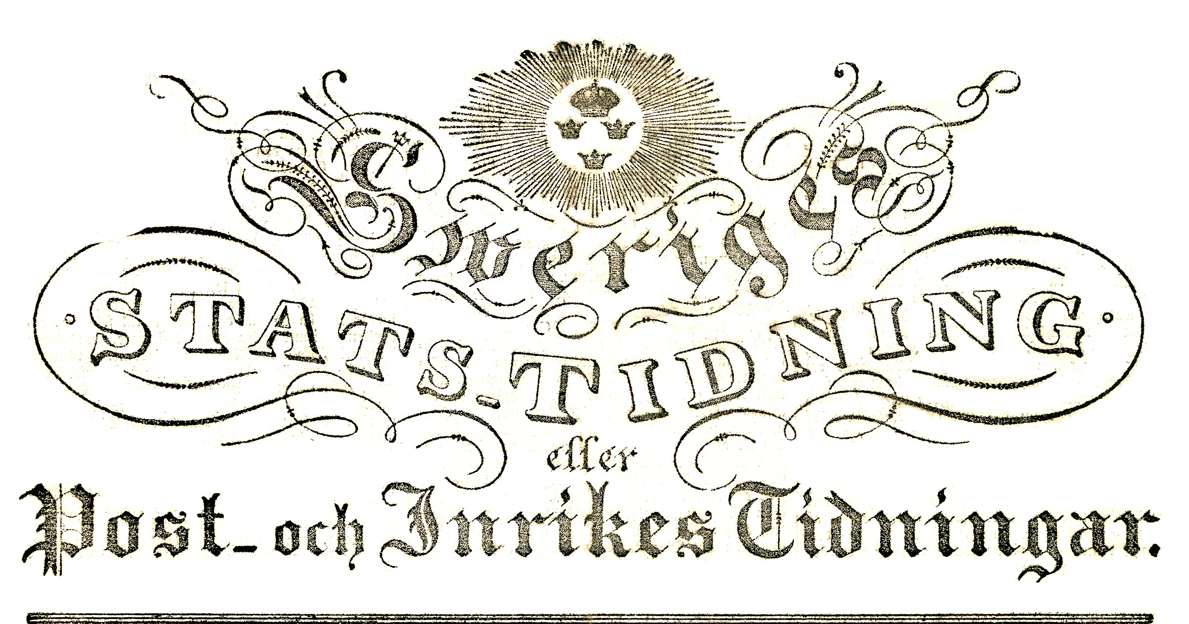 Logotype of Post- och Inrikes Tidningar, as it appeared in 1835